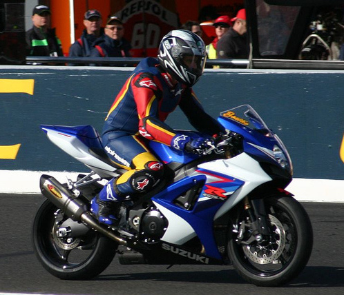 Daryl Beattie on the Aussie legends ride around the track.